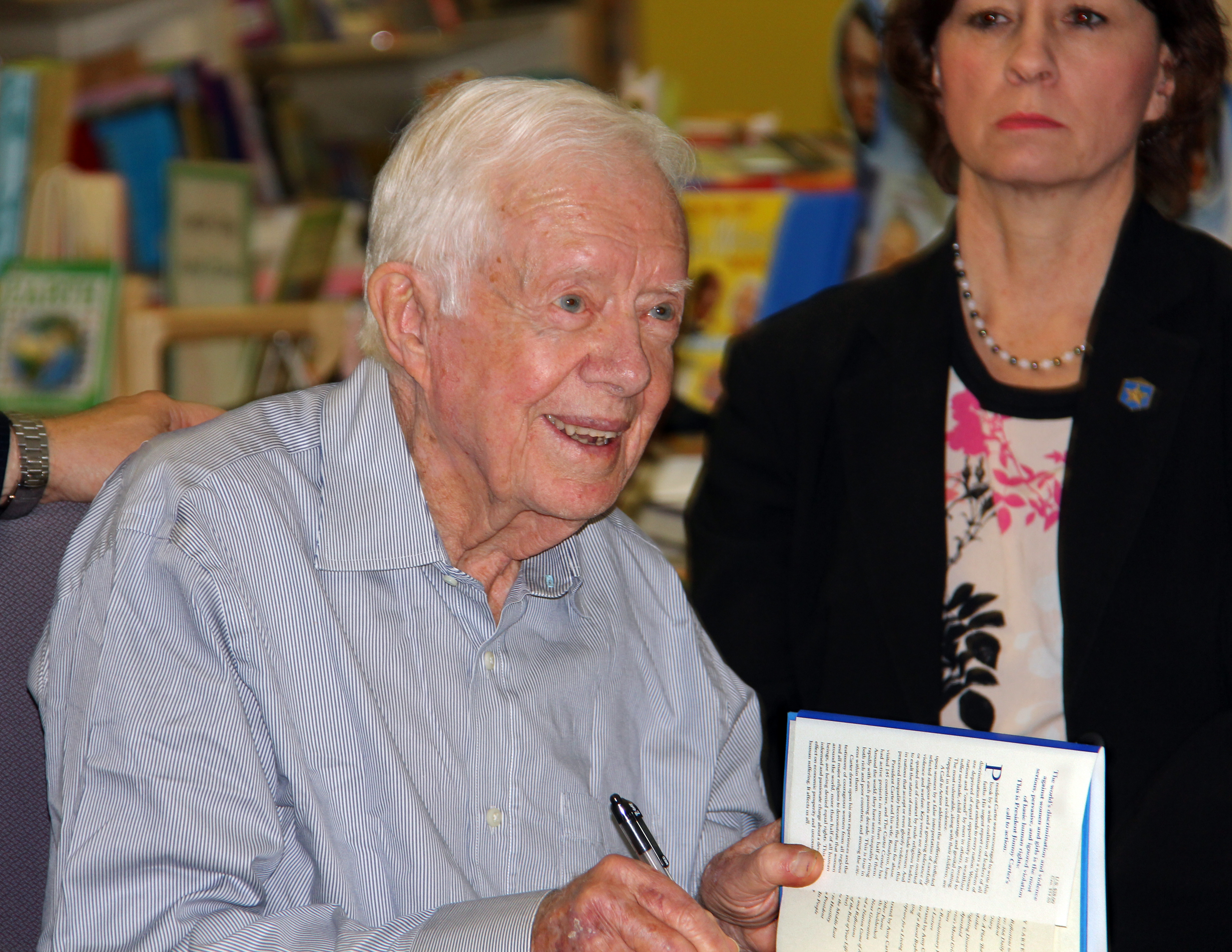 Former American President Jimmy Carter signs books at Quail Ridge Books in Raleigh, NC on April 2nd, 2014.